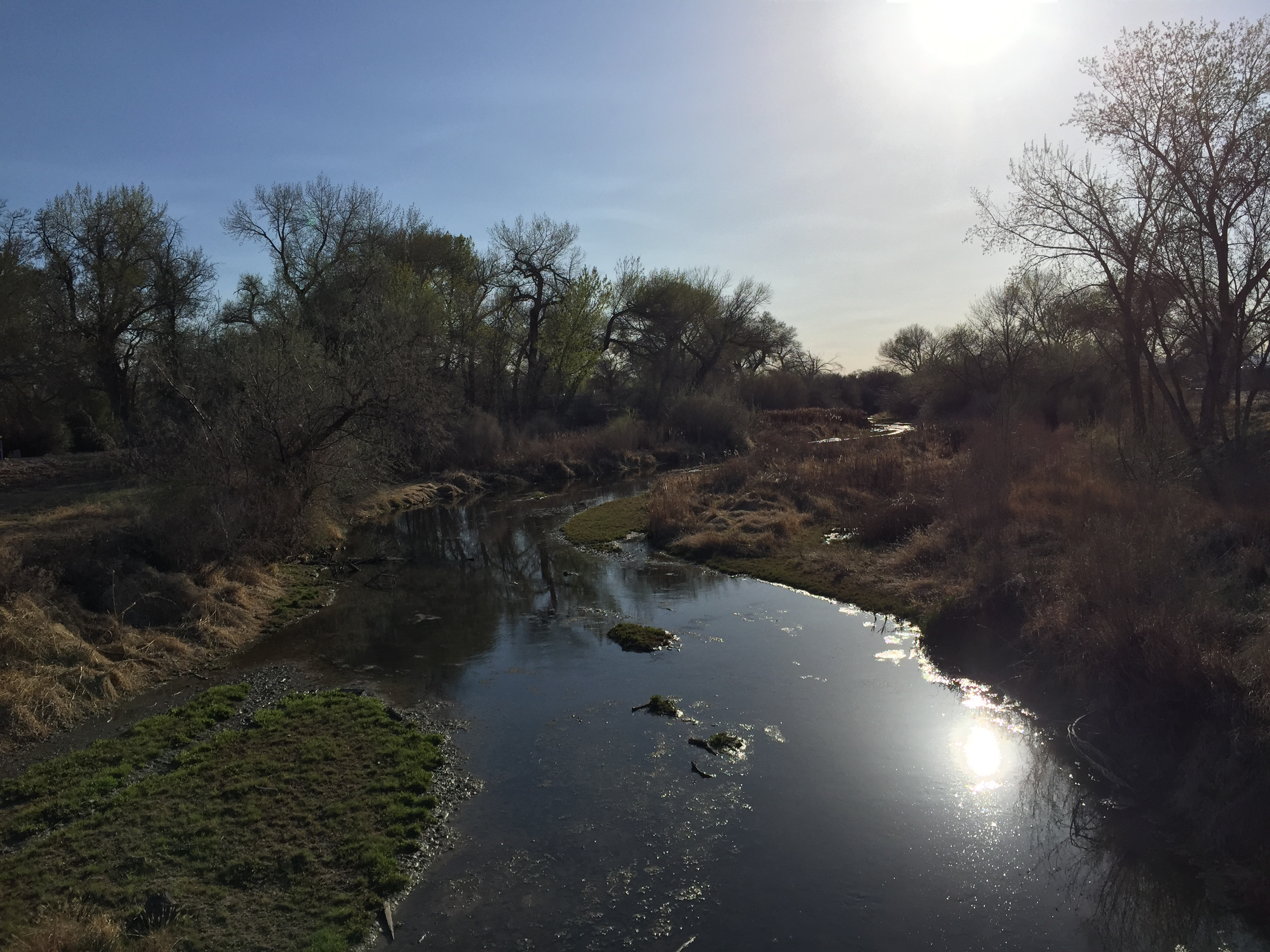 View west up the Carson River from U.S. Route 50 just west of Fallon, Nevada